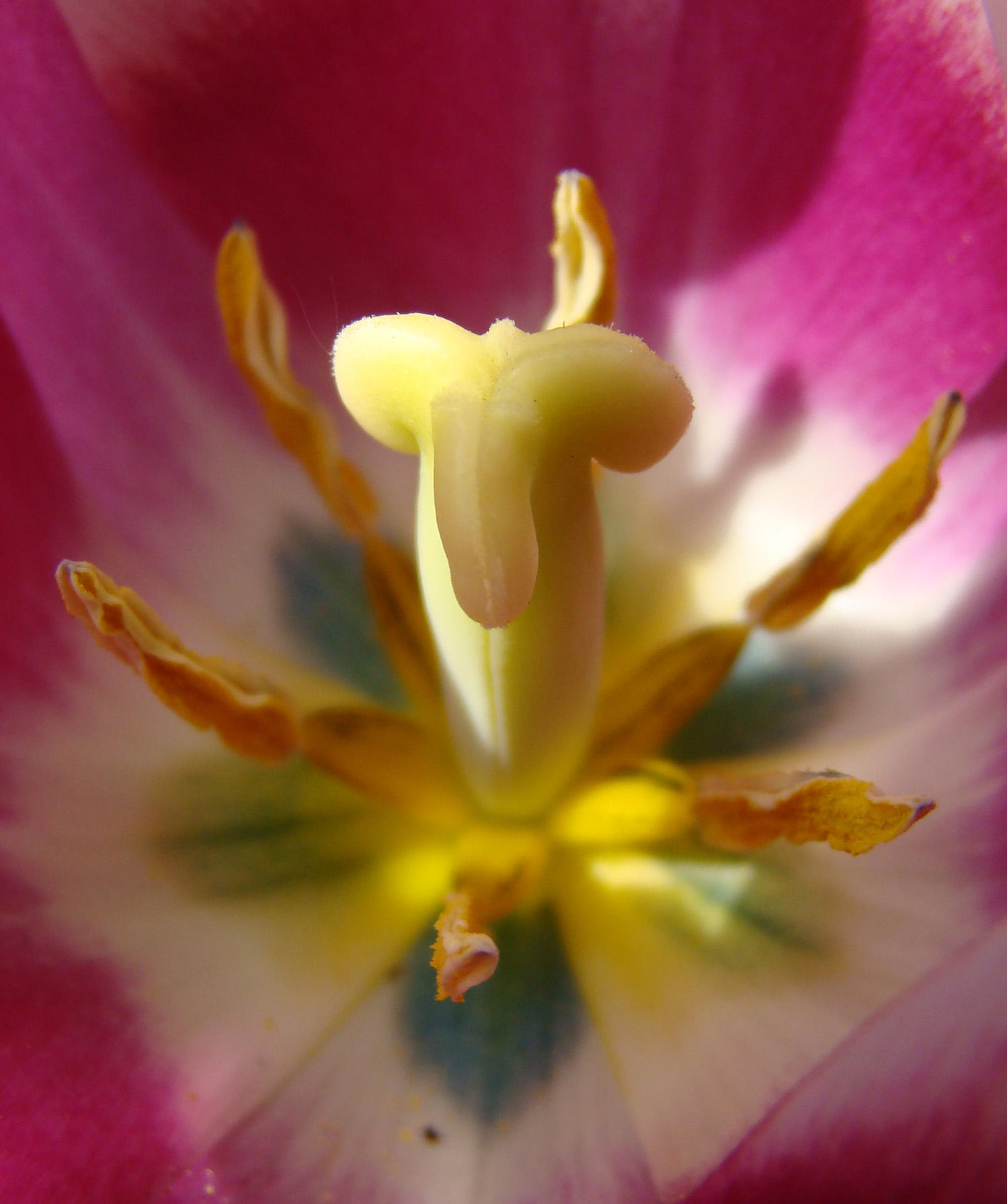 Stamen and gynoecium of Tulip